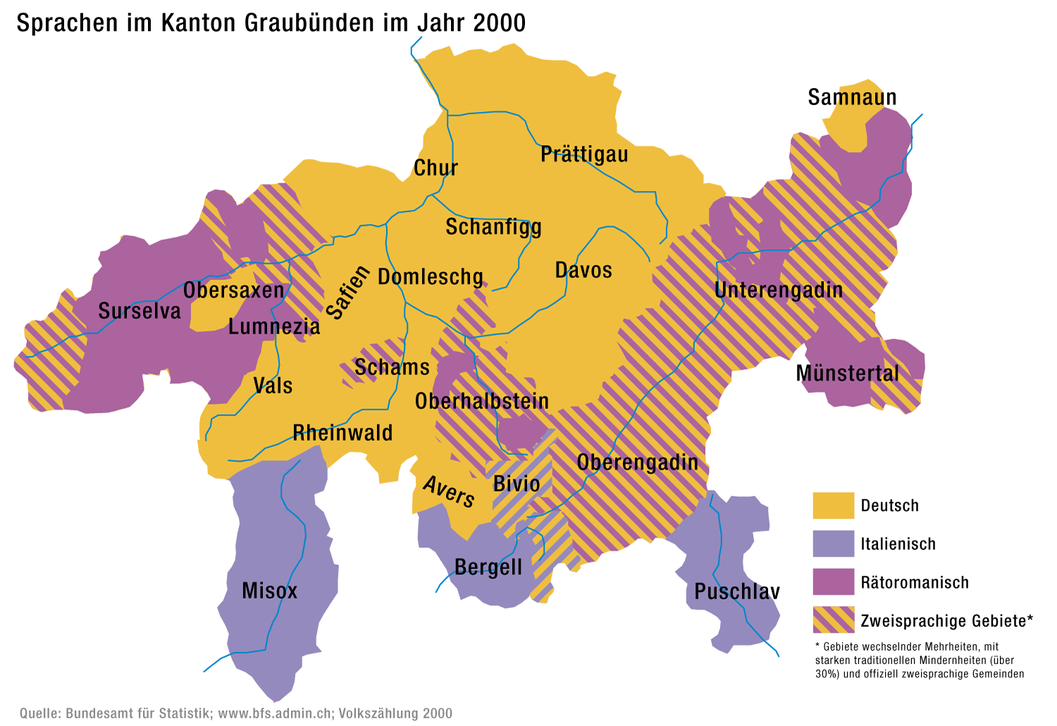 Distribution of the three official languages of Graubünden in 2000. Striped areas have swinging majority, traditionally strong minorities (+30%) of either official languages or are officially bilingual communities. Romansh-speaking areas German-speaking areas Italian-speaking areas Ripoarisch: De Verdeilong vun de drei offzjälle Schprooche en Jraubünde im Johr 2000. Jääjende met Schtriefe han wääßelnde Miehheite un traditjonäll schtarke Menderheite vun övver drißßesch Prozänt un sin offizjäll zwieschroocheje Jemeinde. Mer kallt Romantsch Mer kallt Dütsch Mer kallt Etaläänesch